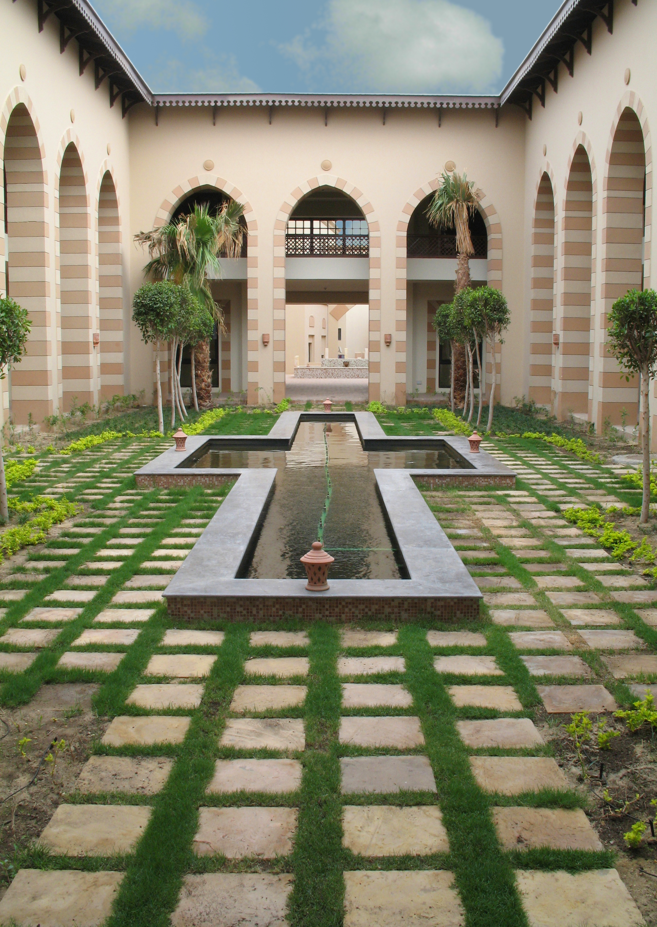 Inner court at Port Ghalib (Marsa Alam, Red Sea, Egypt) and the skies of Sandomierz, Poland.